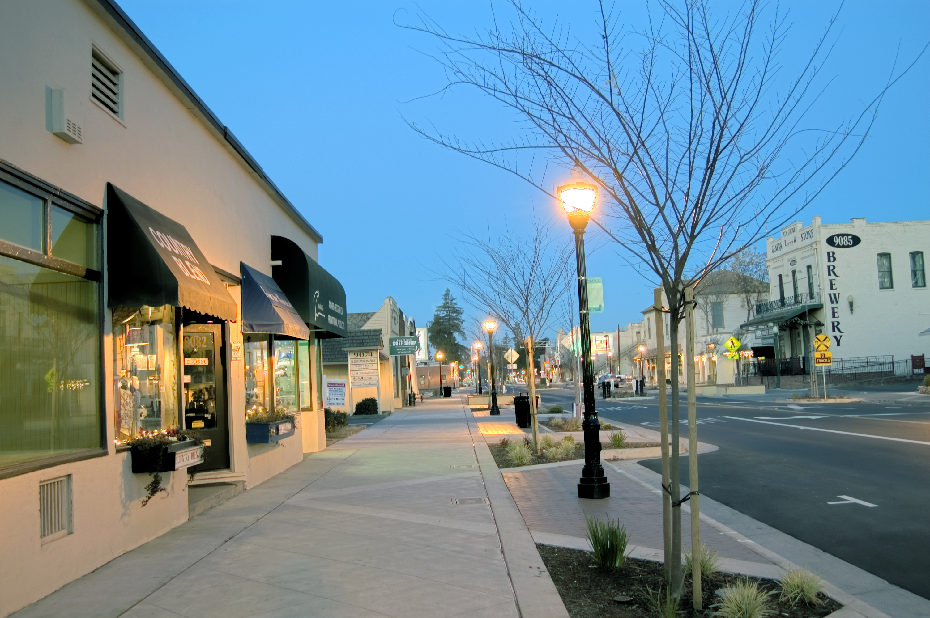 Old Town of Elk Grove, California (2007)